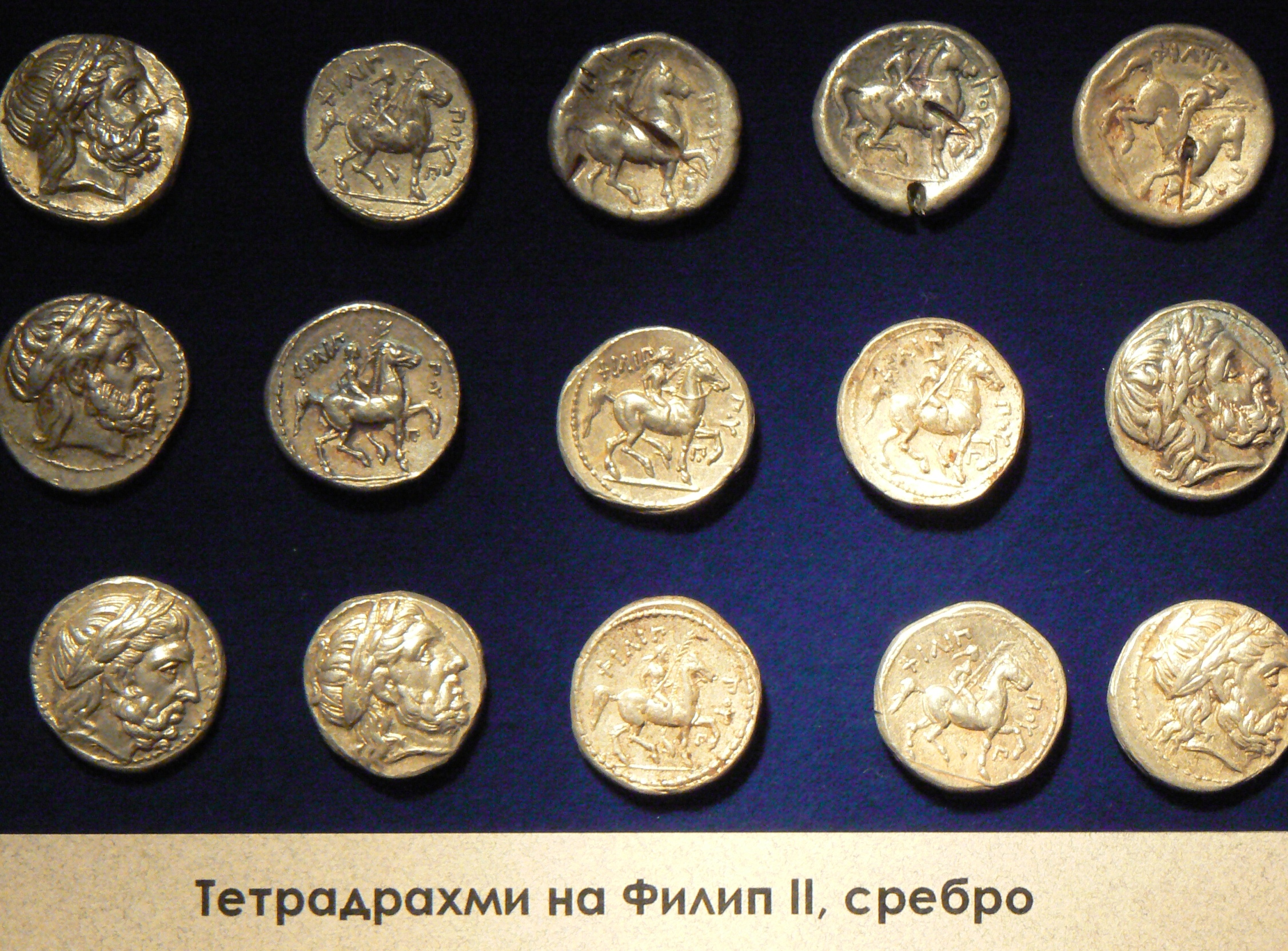 Silver tetradrachms of Philip II of Macedon. Part of the Rezhantsi Treasure. Exhibits of the National History Museum of Bulgaria